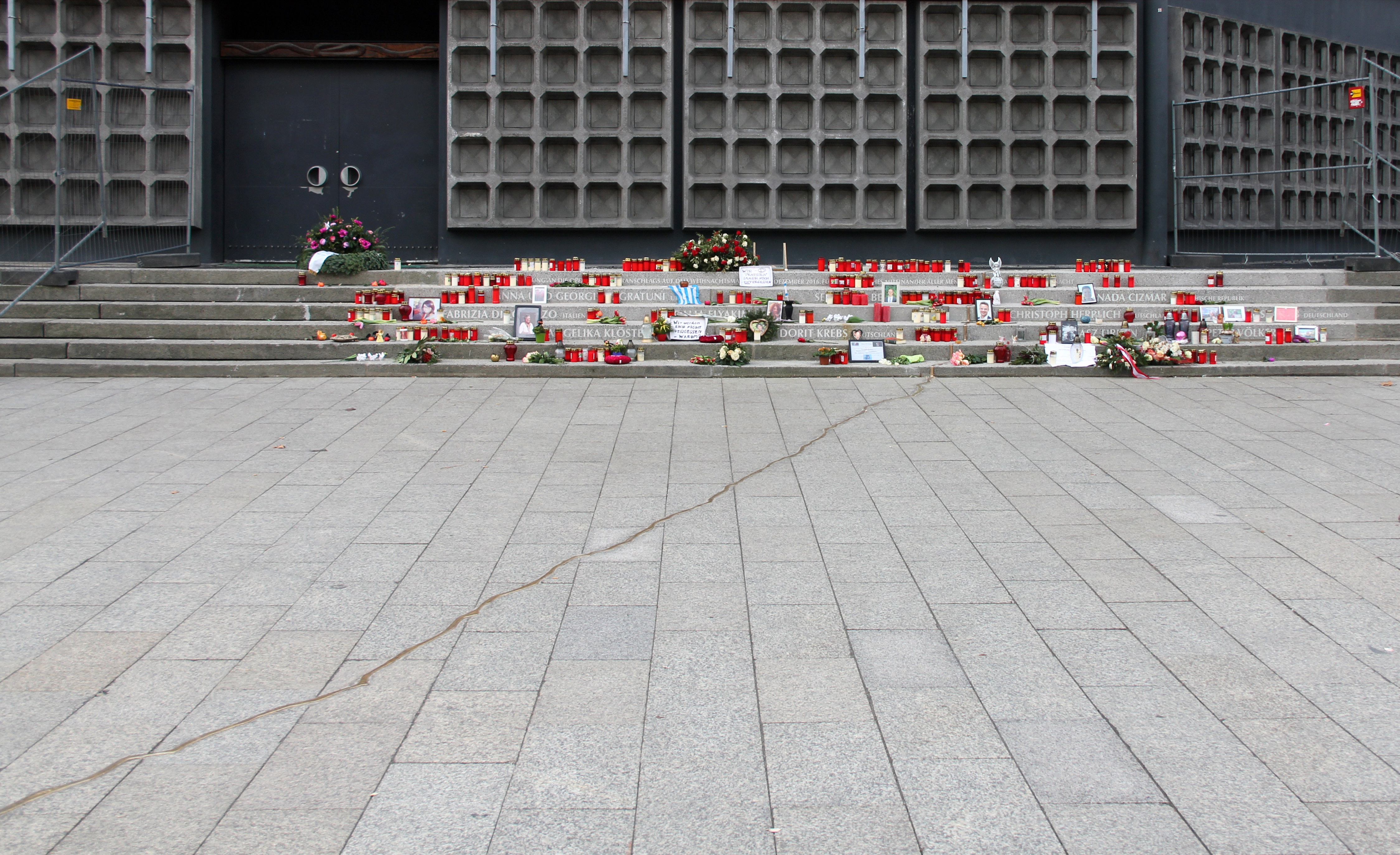 Memorial, "Der Riss" by mm+, 2017, Breitscheidplatz, Berlin-Charlottenburg, Germany